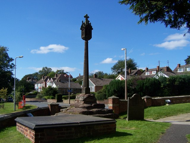 Cross at St. Barts. The remains of a more ancient cross was discovered in 1912, believed to have connections with Leofric, husband of Lady Godiva.